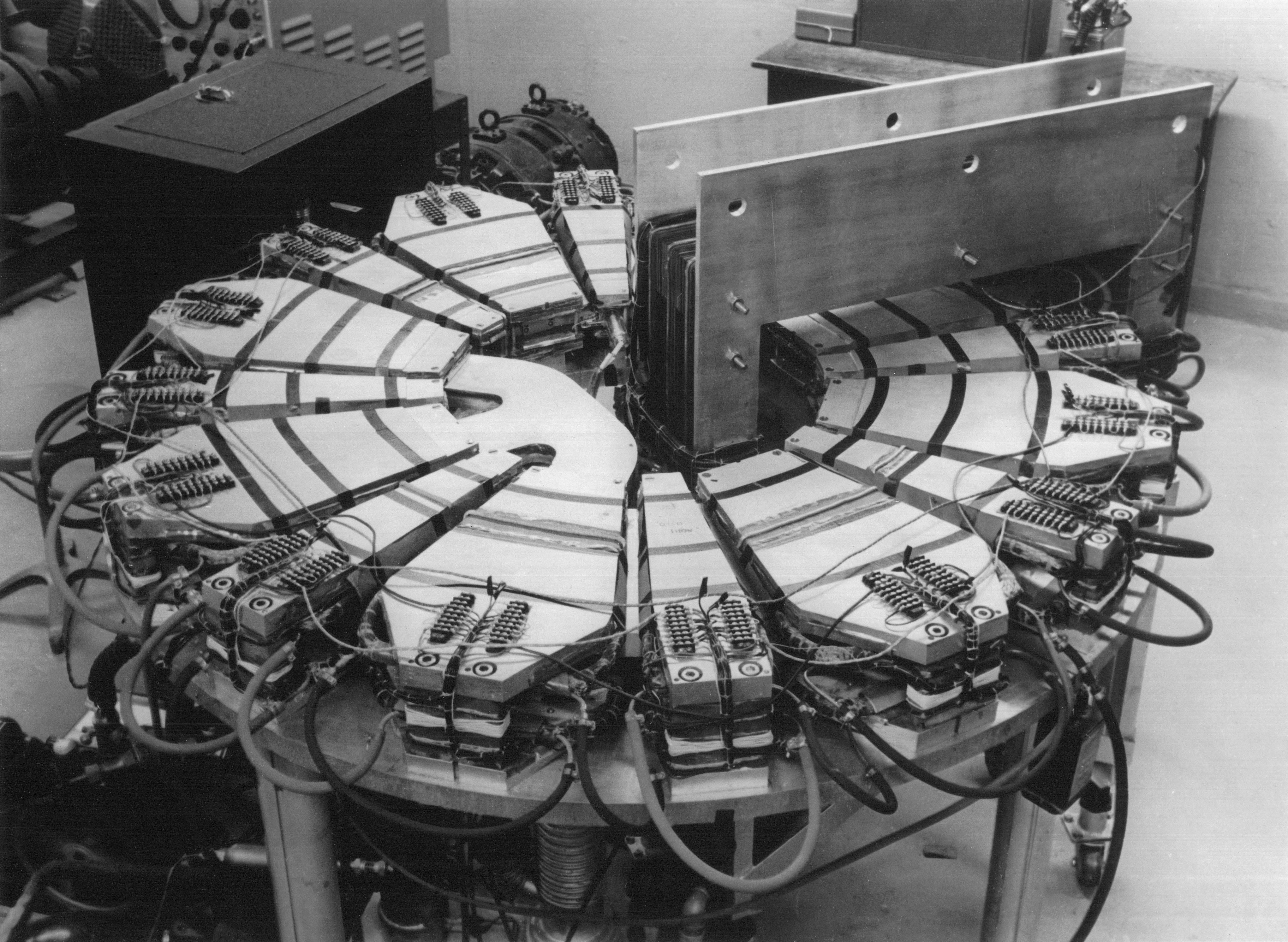 The Michigan Mark I FFAG accelerator (fixed field alternating gradient accelerator), as erected at the University of Michigan before it was moved to the Midwestern Universities Research Association lab in Madison, Wisconsin. This 400KeV electron accelerator was the first operational FFAG accelerator. As shown here, it used betatron acceleration; after the move to Madison, it was reconfigured as a 500KeV electron synchrotron. The horizontal ring centered in the photo was composed of alternating positive (big) and negative (small) bending magnets. These enclosed the vacuum chamber that accommodated particle orbits between 0.7 and 1.0m diameter. Magnet power was provided by one of the two motor-generator sets partially visible in the upper left. The large rectangular yoke on the right of the photo is the water-cooled betatron core, a transformer core where the secondary winding was the particle beam being accelerated. The primary winding on the betatron core was excited by 500Hz AC provided by the other motor generator set. A bank of large capacitors, not visible, was wired across the betatron primary winding improve the power factor. The vacuum pump for the accelerator filled most of the under-table space visible in the photo. The large rectangular box in the upper left was an electronics rack, partially obscuring the view of the motor generator sets and an oscilloscope.